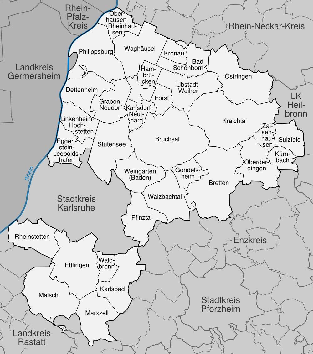 municipalities in distict of Karlsruhe, Baden-Württemberg, Germany.